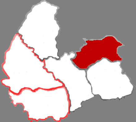 Location of Huairen county in Shuozhou City, China